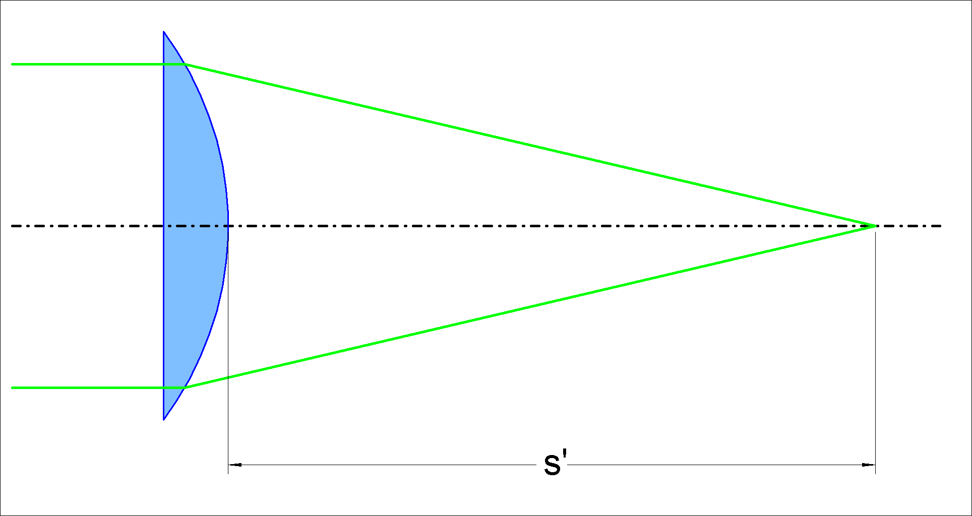 Back focal length at a plano-konvex lens.